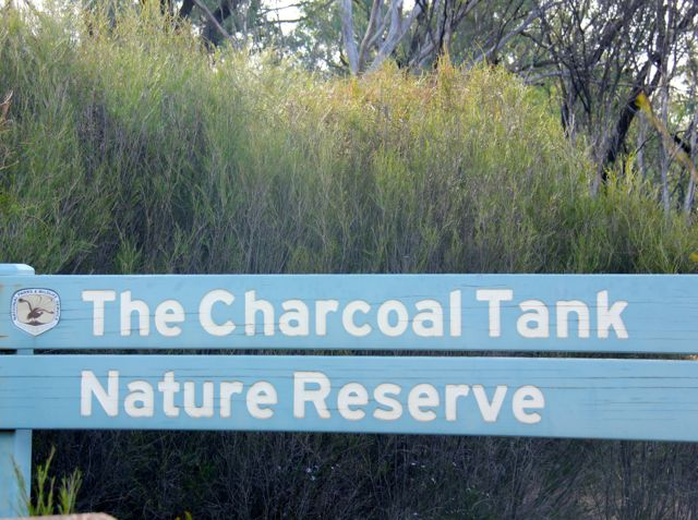 Sign on entry to Charcoal Tank Nature Reserve